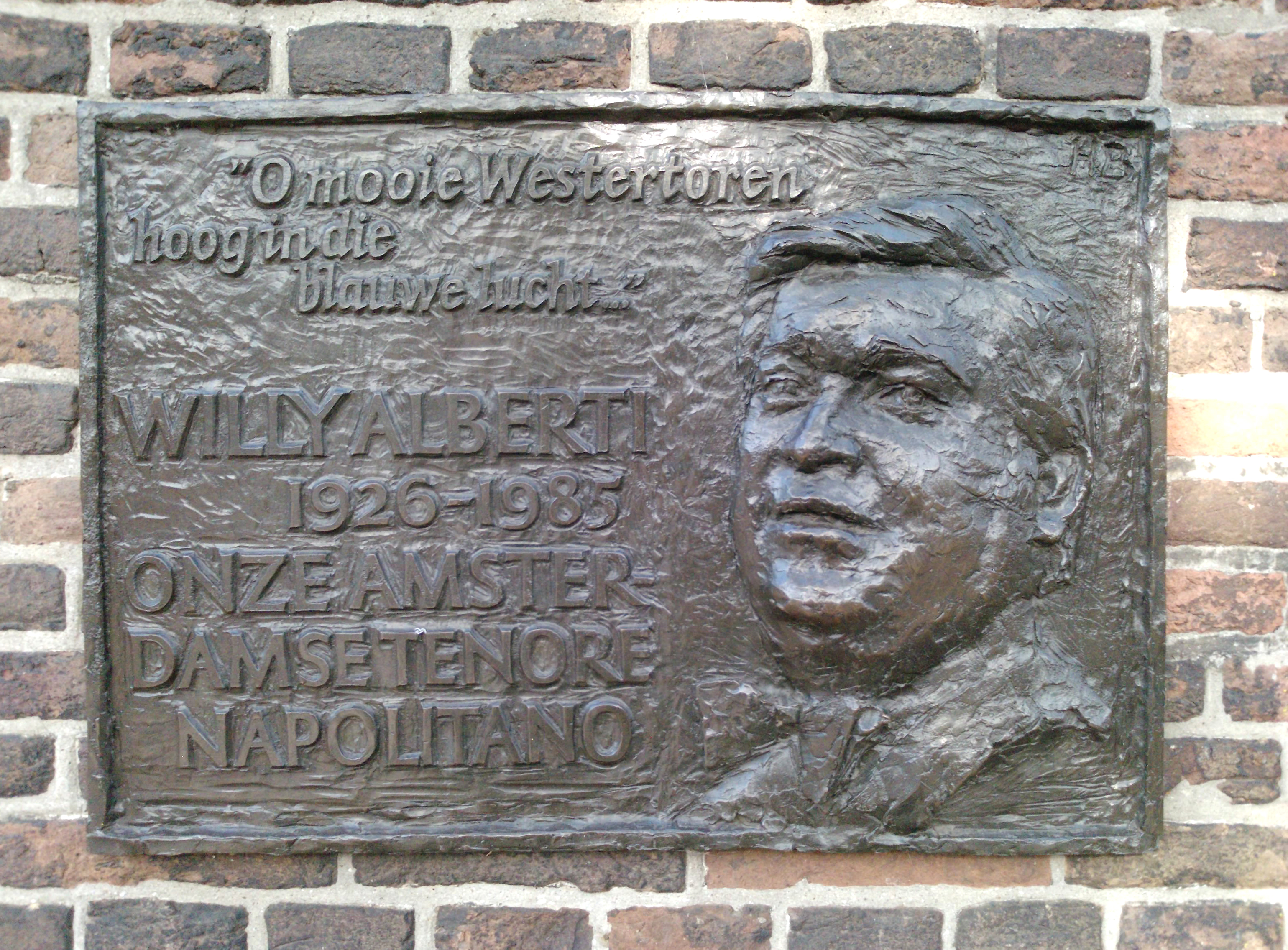 Relief of the singer Willy Alberti. Made by Hans Bayens and placed against the Westerkerk tower at the Prinsengracht in Amsterdam in 1986.